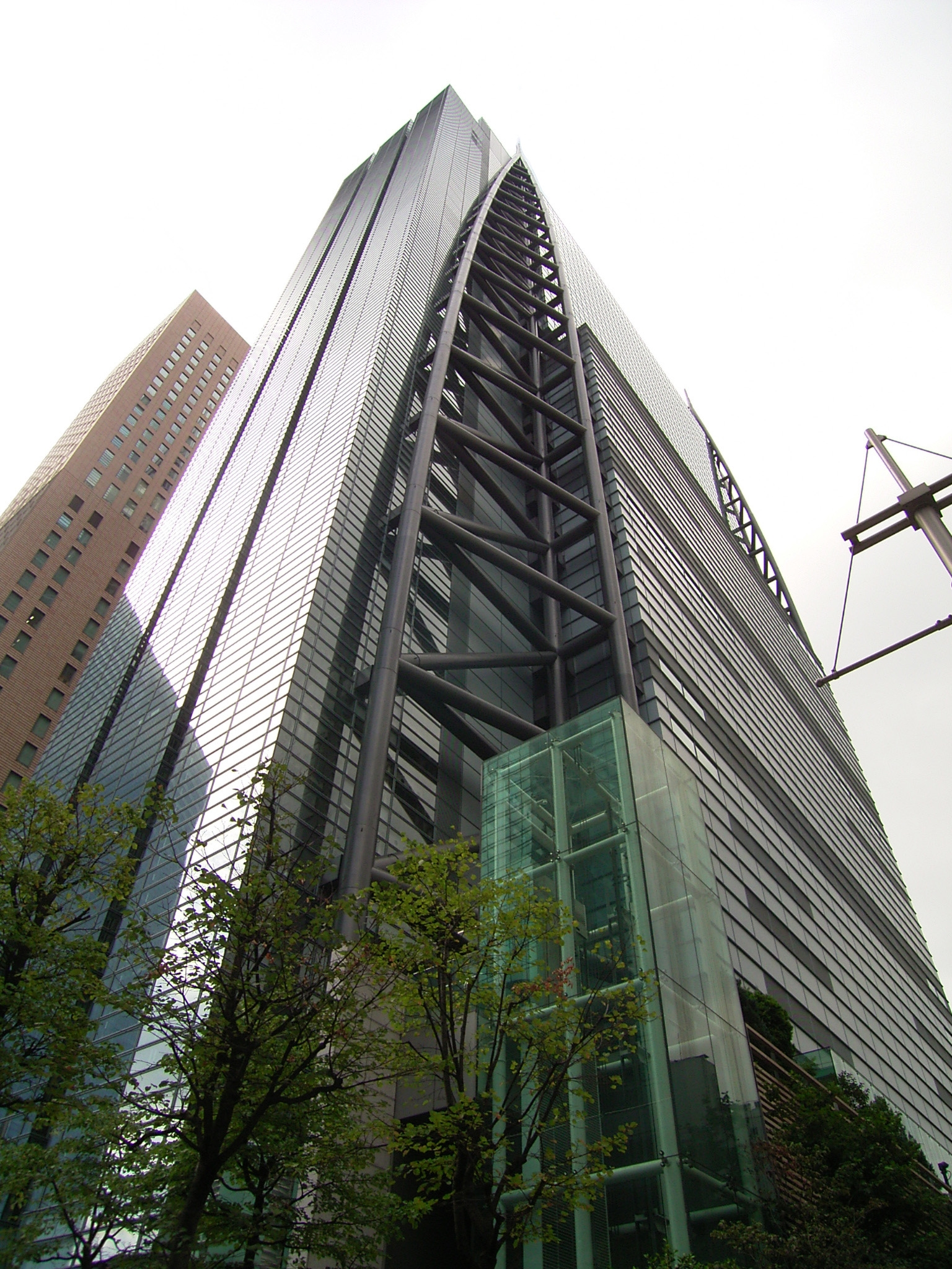 Nippon Television Network Corporation Head Office Building Nittele tower address = 1-6-1, Higashishinbashi, Minato-ku, Tokyo